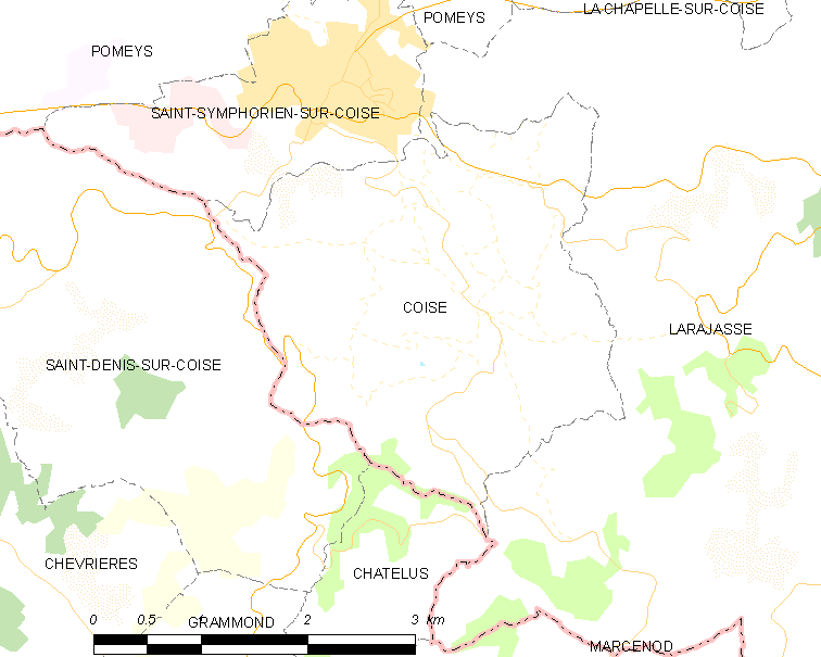 Map of French municipality